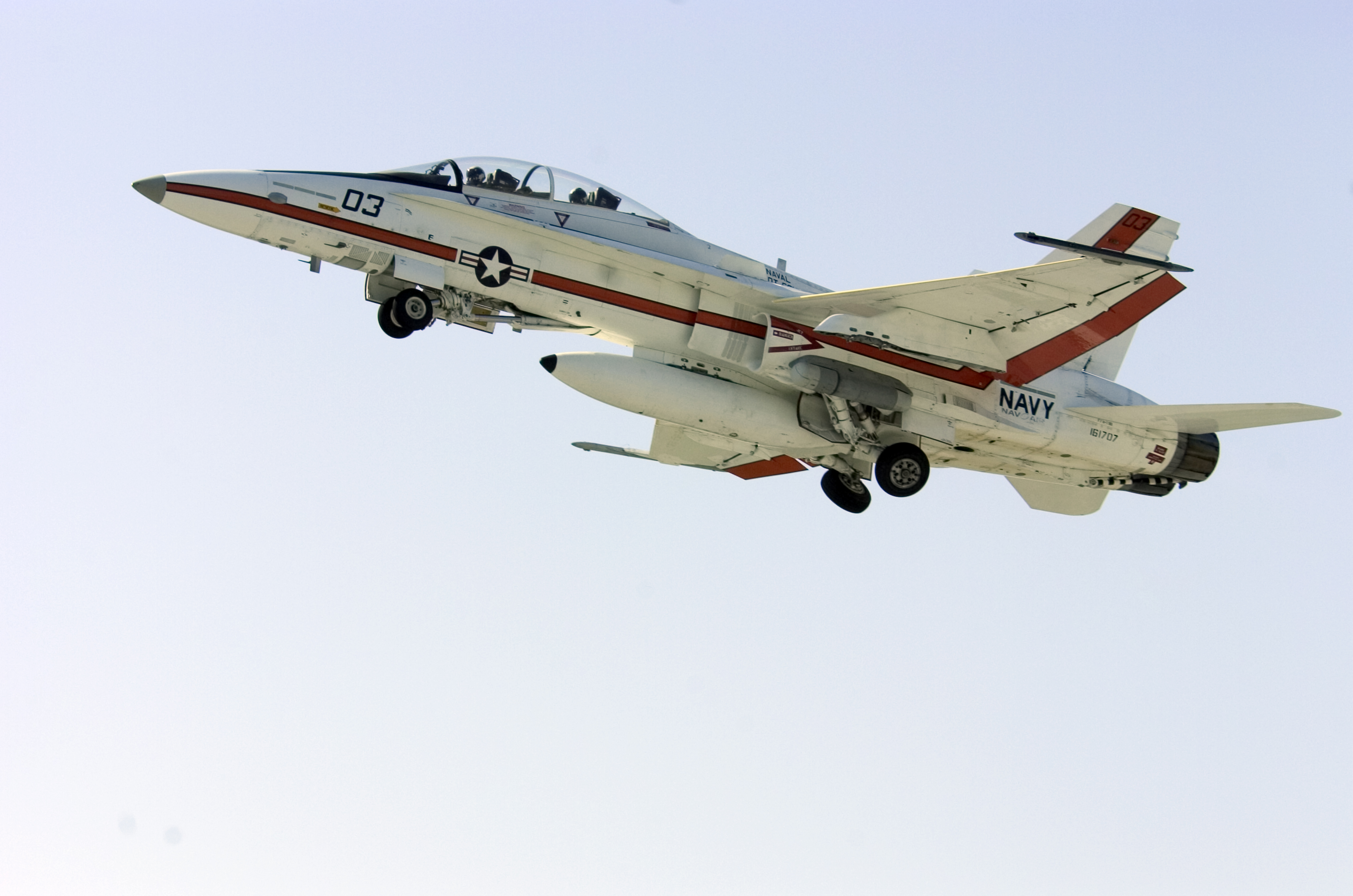 Patuxent River, Md. (Aug. 3, 2005) – An F/A-18B Hornet, assigned to the U.S. Naval Test Pilot School, folds-up its landing gear after taking off for a training flight from Naval Air Station Patuxent River, Md. The United States Naval Test Pilot School (USNTPS) provides instruction to experienced pilots, flight officers, and engineers in the processes and techniques of aircraft and systems test and evaluation. The school investigates and develops new flight test techniques, publishes manuals for use of the aviation test community for standardization of flight test techniques and project reporting, and conducts special projects. USNTPS operates approximately 50 aircraft of 13 types. U.S. Navy photo by Photographer’s Mate 2nd Class Daniel J. McLain (RELEASED)